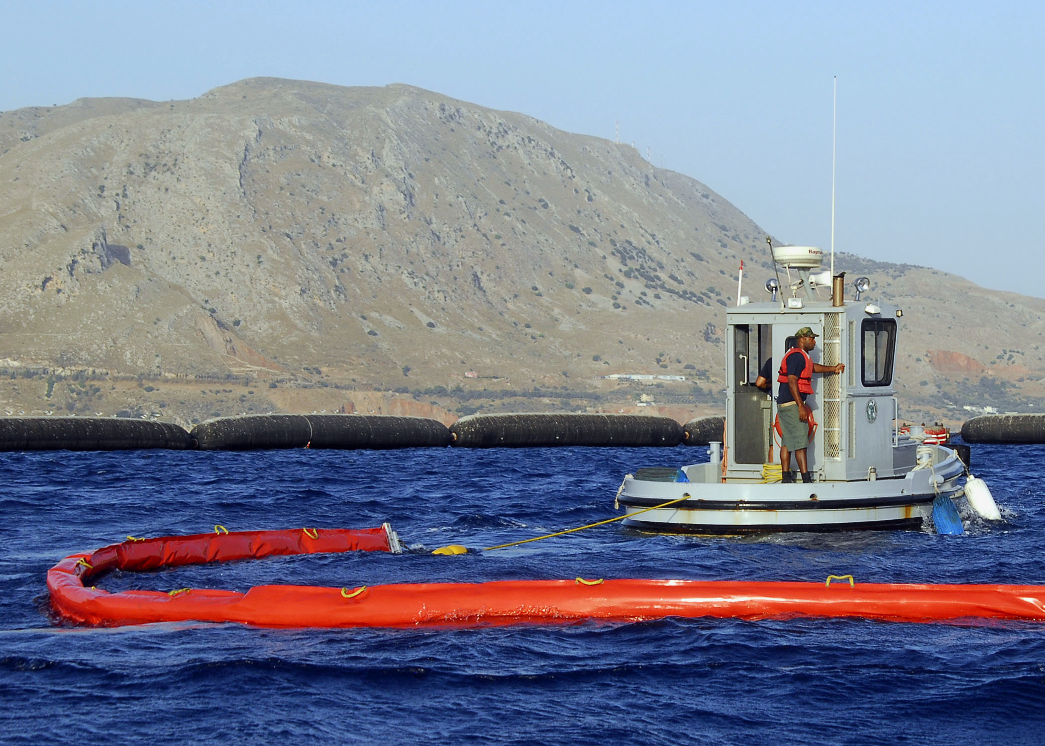 080723-N-0780F-002 SOUDA BAY, Crete, Greece (July 23, 2008) An oil spill response team at U.S. Naval Support Activity Souda Bay deploys a "Harbour Buster" high-speed oil containment system during a drill to test procedures to contain and recover oil during a spill. (U.S. Navy photo by Mr. Paul Farley/Released)